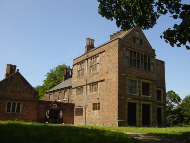 Bewsey Old Hall Bewsey Old Hall was originally built by William Fitz Almeric le Boteler and was home to the Lords of Warrington from the 13th Century for many generations. A monastic grange existed in the site prior to the Hall being built. The largely Jacobean building is currently of three storey construction, with distinctive chimneys and stone mullion windows. This is likely to be the work of Sir Thomas Ireland who was knighted at Bewsey in 1617 by King James 1st. Only a small portion of the original building remains today, but since the late 1970s much historical, architectural and archaeological investigation has taken place to reveal the importance of the site.